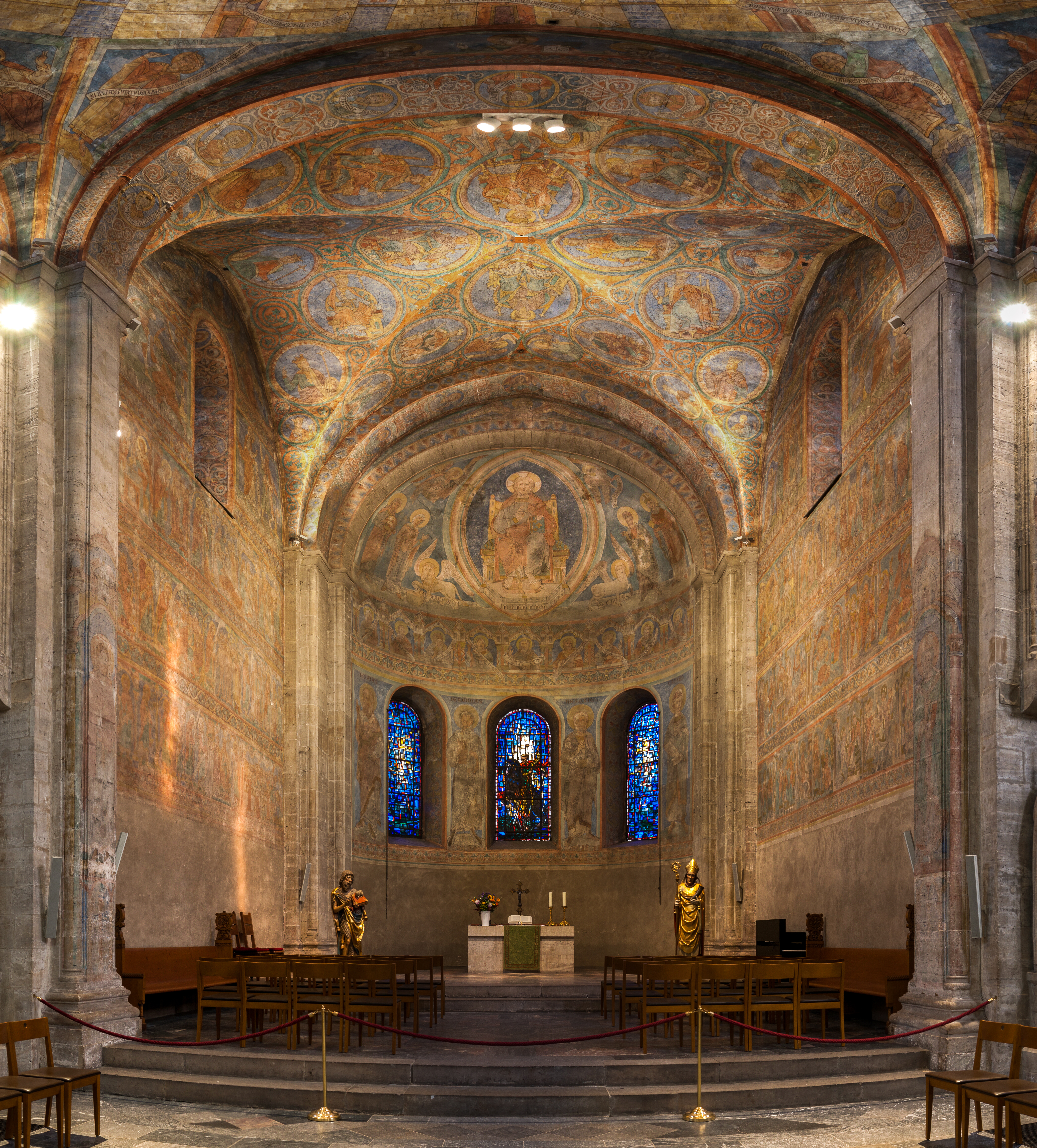 Brunswick Cathedral St. Blasii, secco painting in chancel and apse.